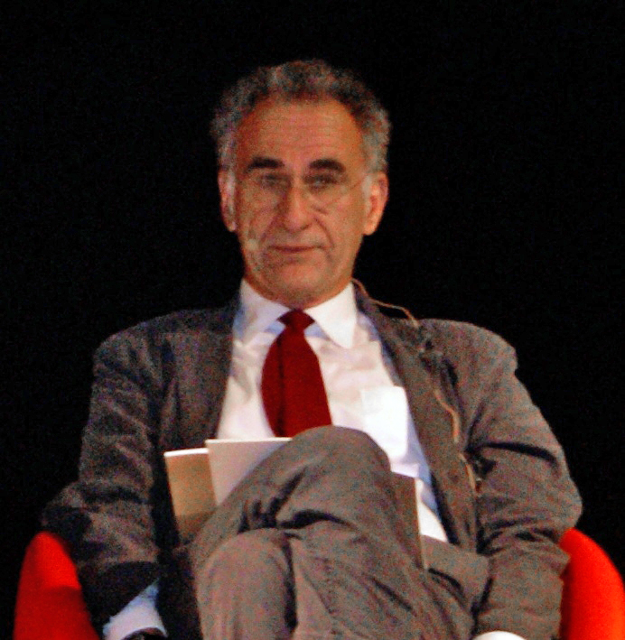 Johan Hirschfeldt at the bookfair in Gothenburg 2009.